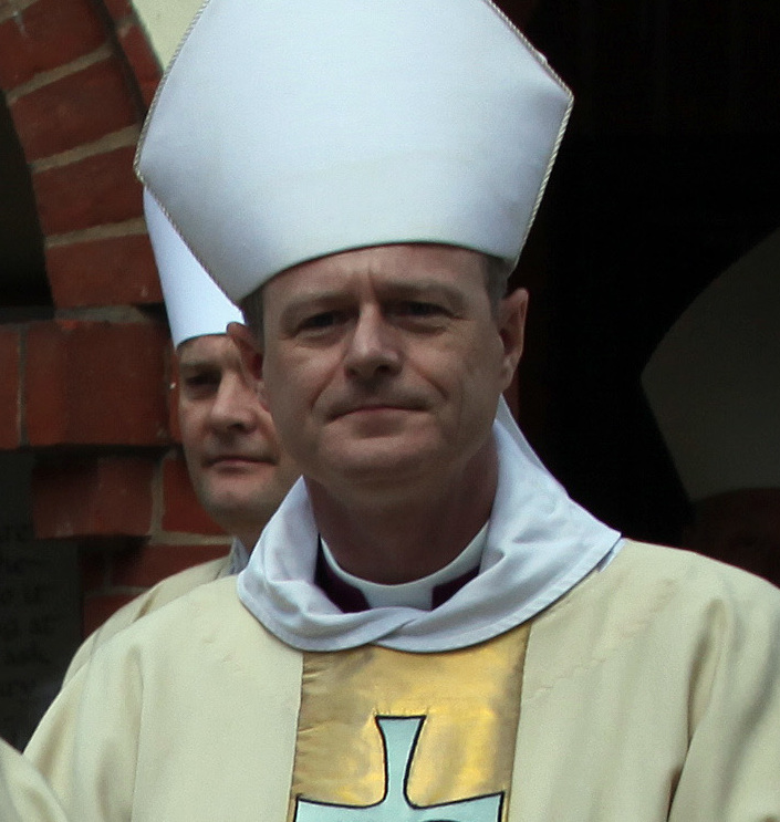 Church of England bishops during the National Pilgrimage to Walsingham, 2012